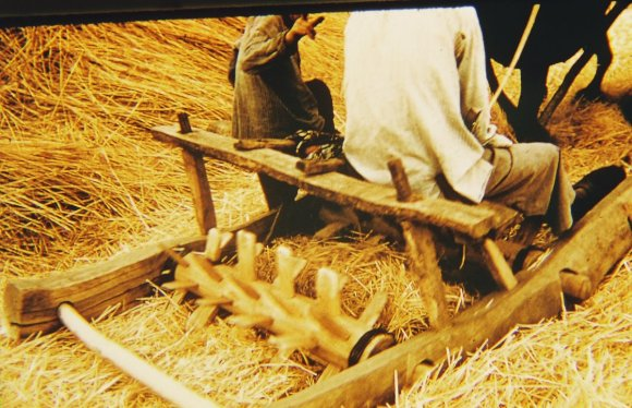 kharman koub